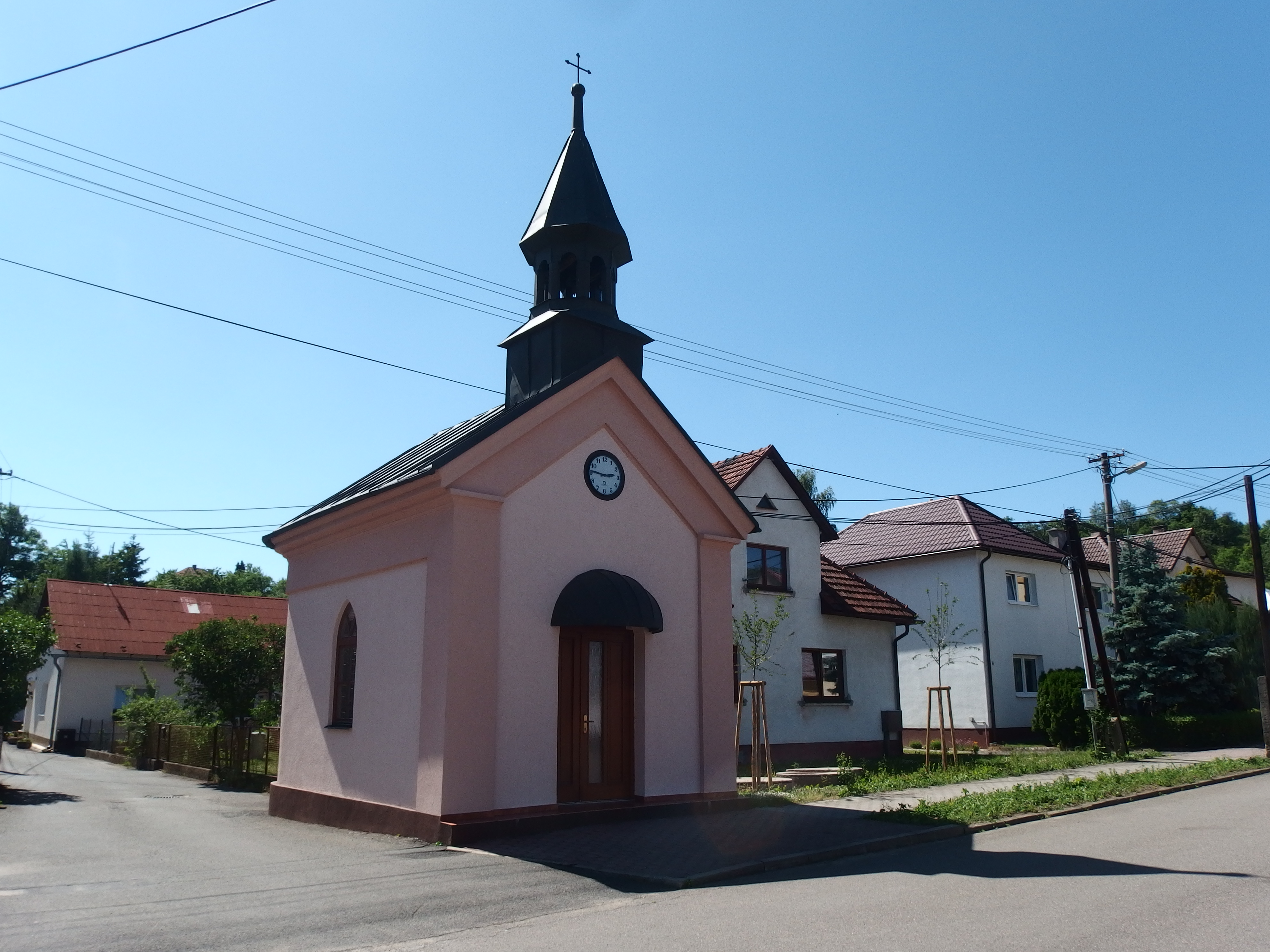 Neubuz, Zlín District, Czech Republic.